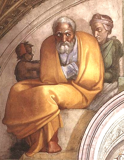 Fresco depicting Jacob, detail of Image:Jacob a.jpg